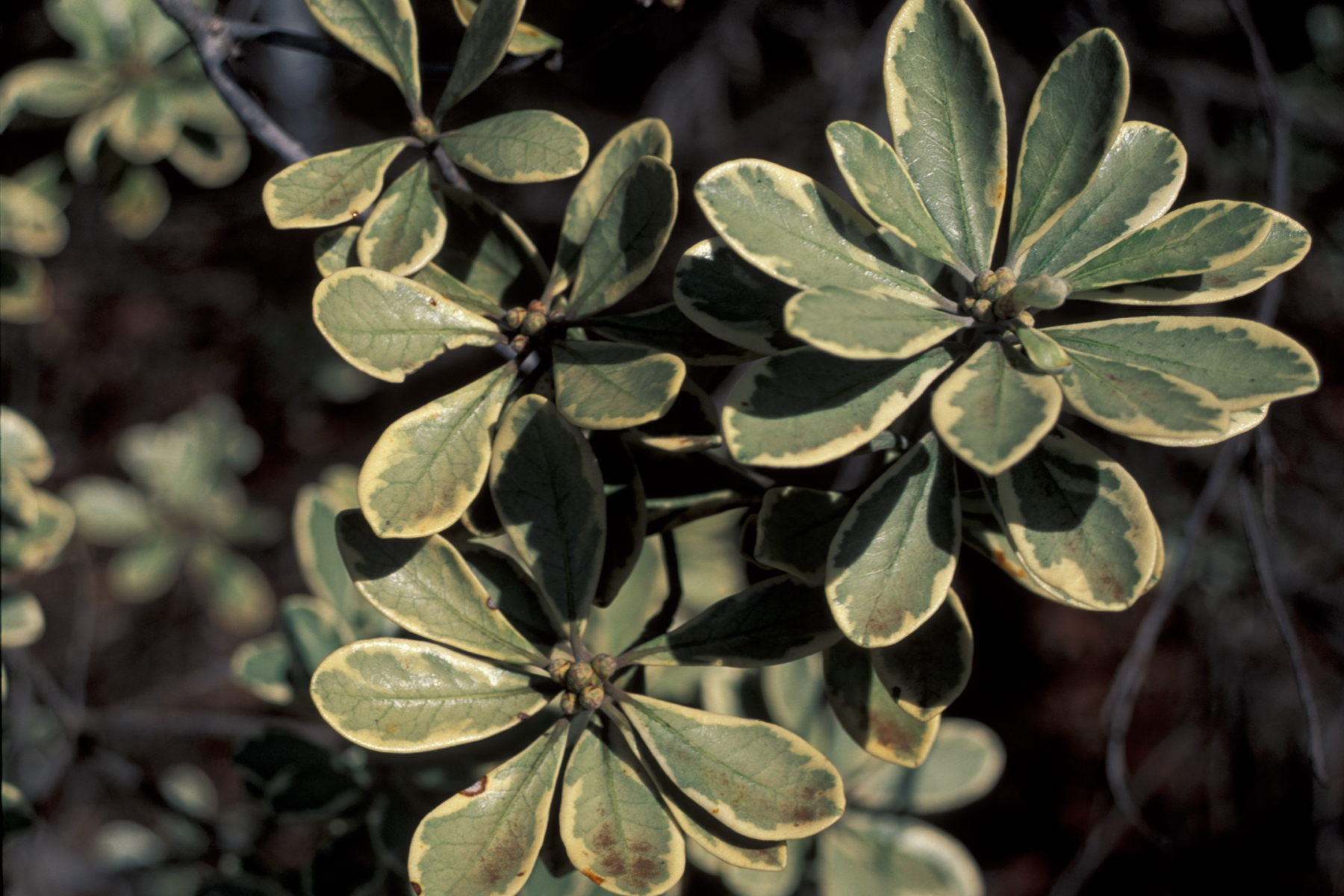 Pittosporum crassifolium var. variegatum. Location: Maui, Kula Experiment Station